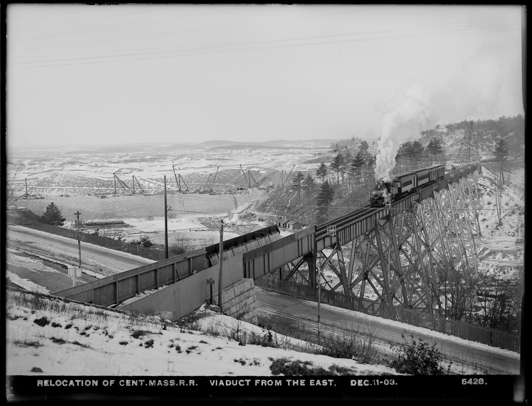 Central Massachusetts Railroad Relocation, viaduct from the east, Clinton, MA, Dec. 11, 1903